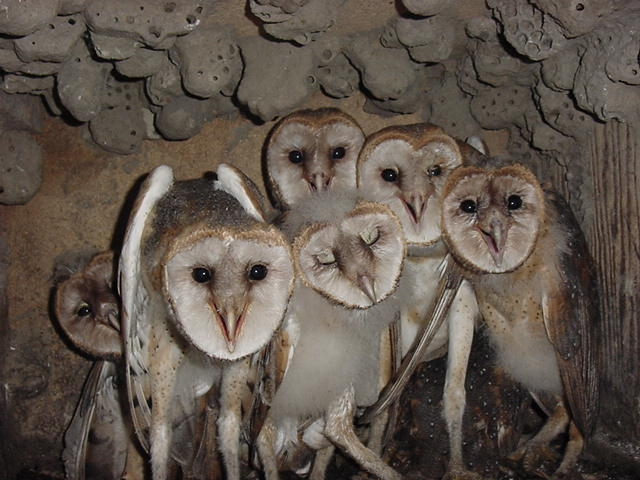 American Barn Owl Tyto furcata pratincola young in nest. American Barn Owls have excellent night vision, but experiments have shown that they can catch their prey using acoustic location alone. Their unique facial disks allow them to localize sounds, enabling them to pinpoint prey location and its direction of movement. These Barn Owls were hatched on the Marais des Cygnes NWR, Kansas, in 2003. Photo credit: USFWS